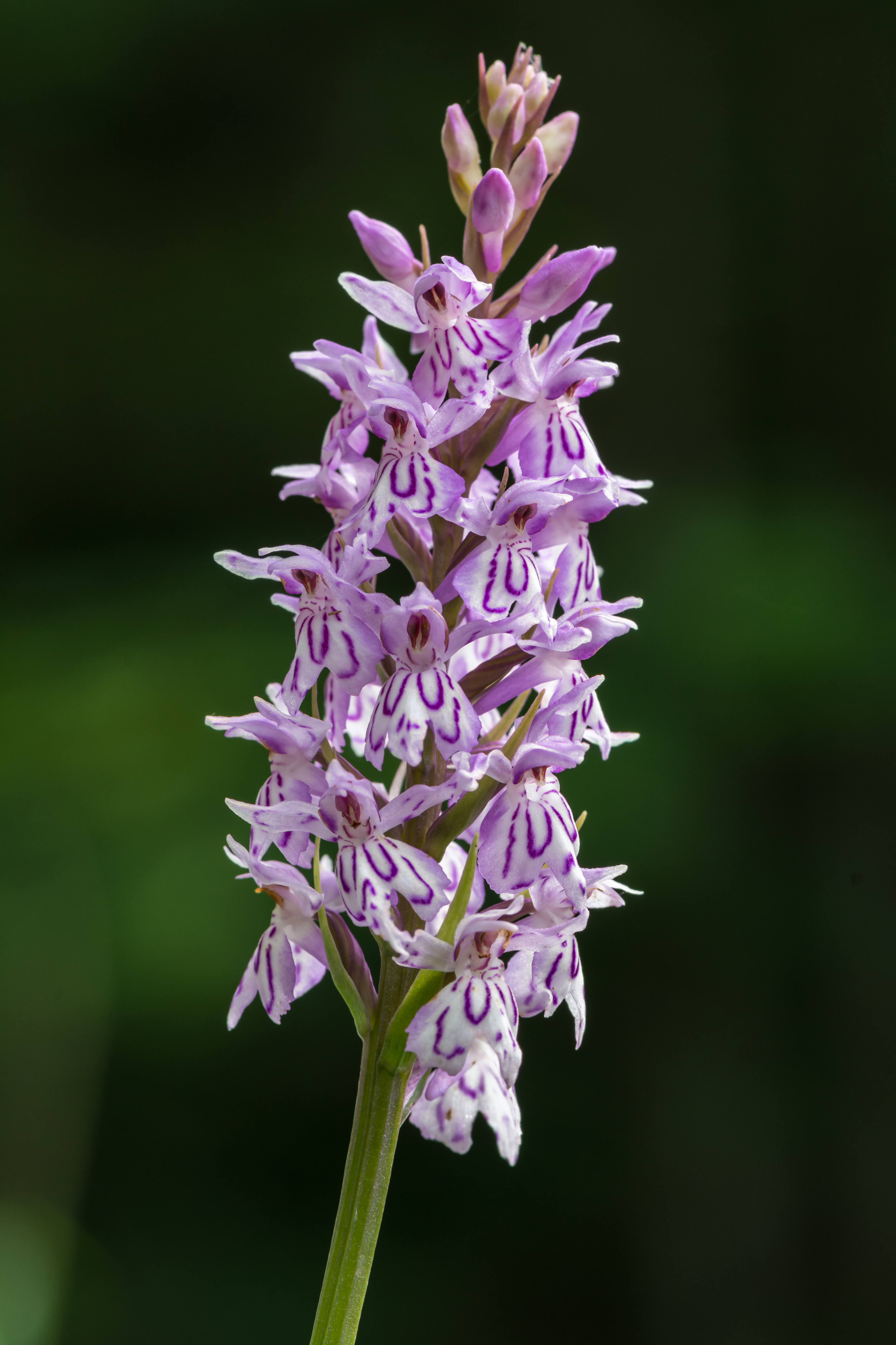 Common spotted orchid (Dactylorhiza fuchsii), found near Mariazell, Styria, Austria